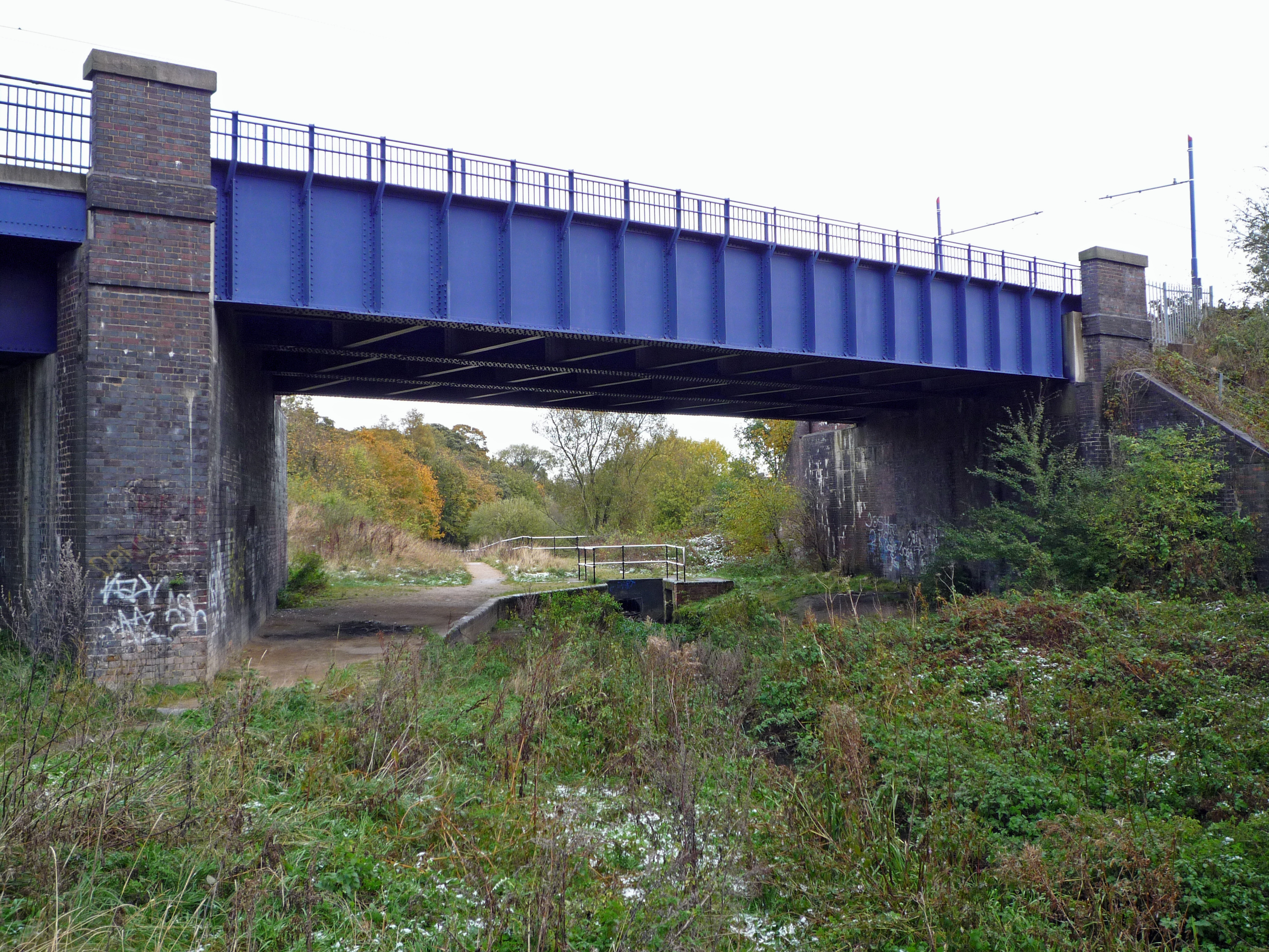 Culverted (filled in) Lock No. 1 on the disused Bradley Branch Canal (part of the Birmingham Canal Navigations in Wednesbury, West Midlands (county), England. It is beneath the Midland Metro bridge (formerly Great Western Railway).